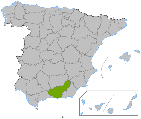 Location of the province of Granada, in Spain. Basado en: ProvPont.jpg Source: Designed by Satesclop. Original picture, designed by Sobreira.